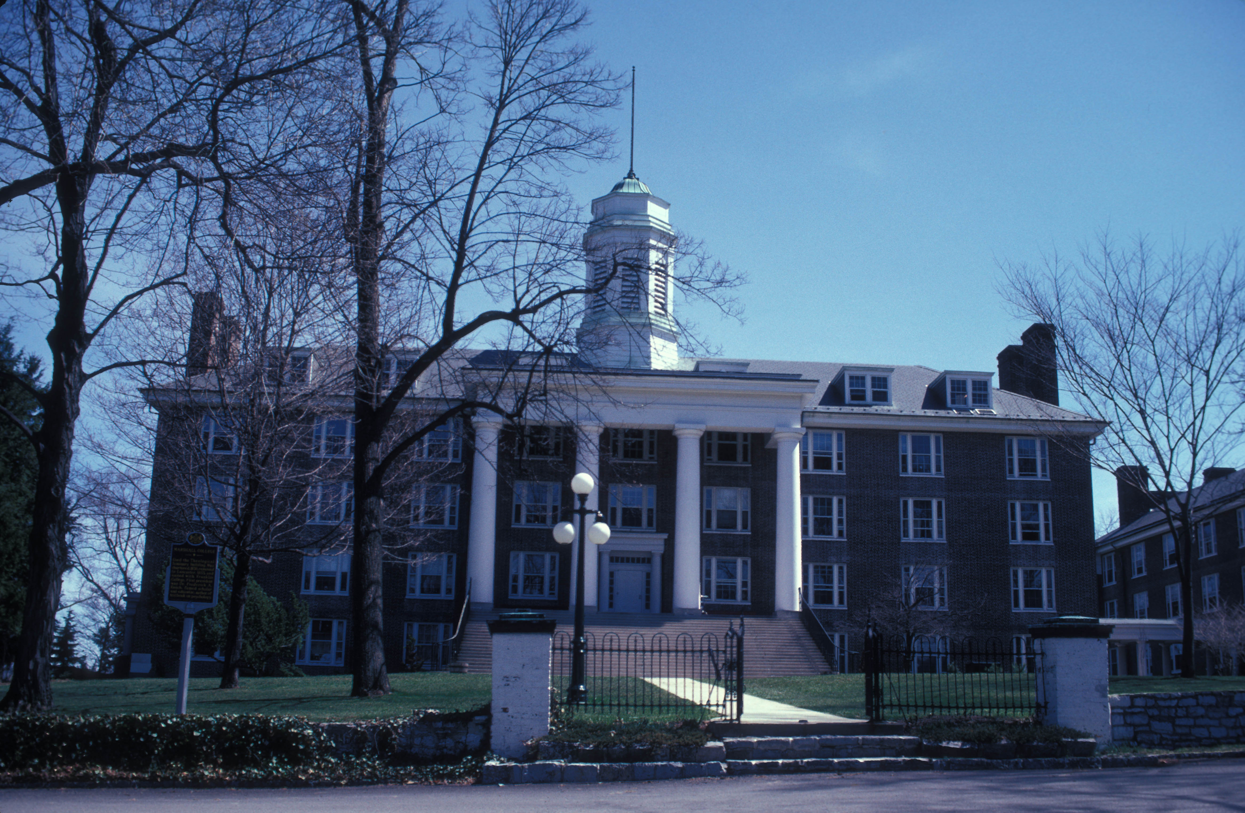 STARTED AROUND 1836 AS A SCHOOL TO TEACH 9TH TO 12 TH GRADE COEDUCATIONAL